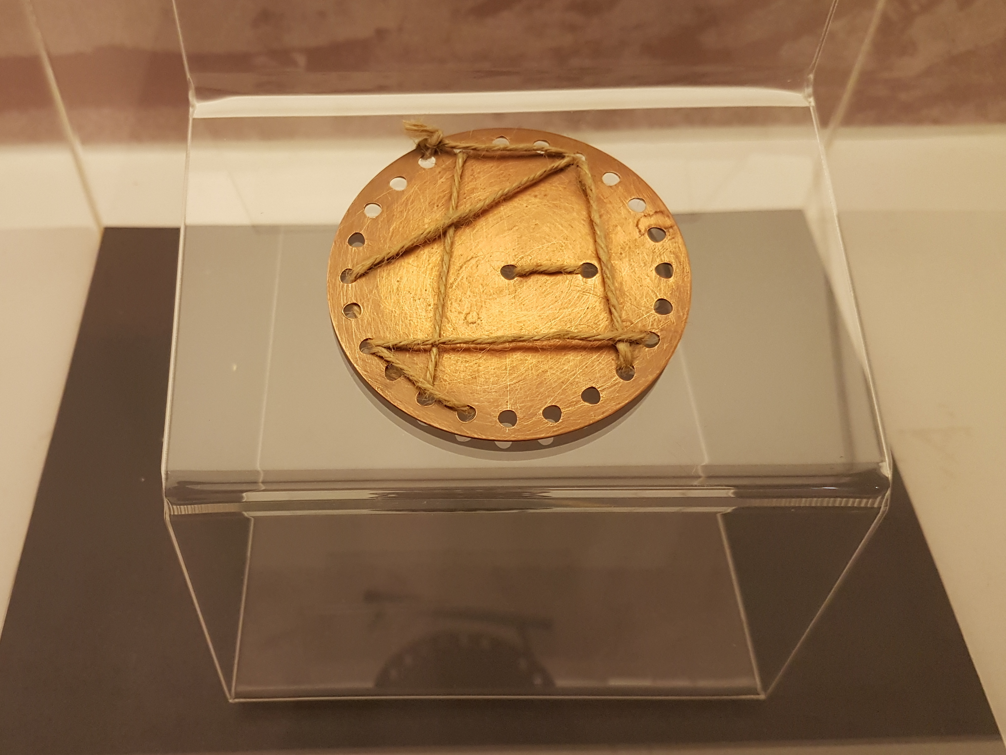 Aeneas Tacticus cipher disc, 5th century BC, Greece (reconstruction). Thessaloniki Technology Museum